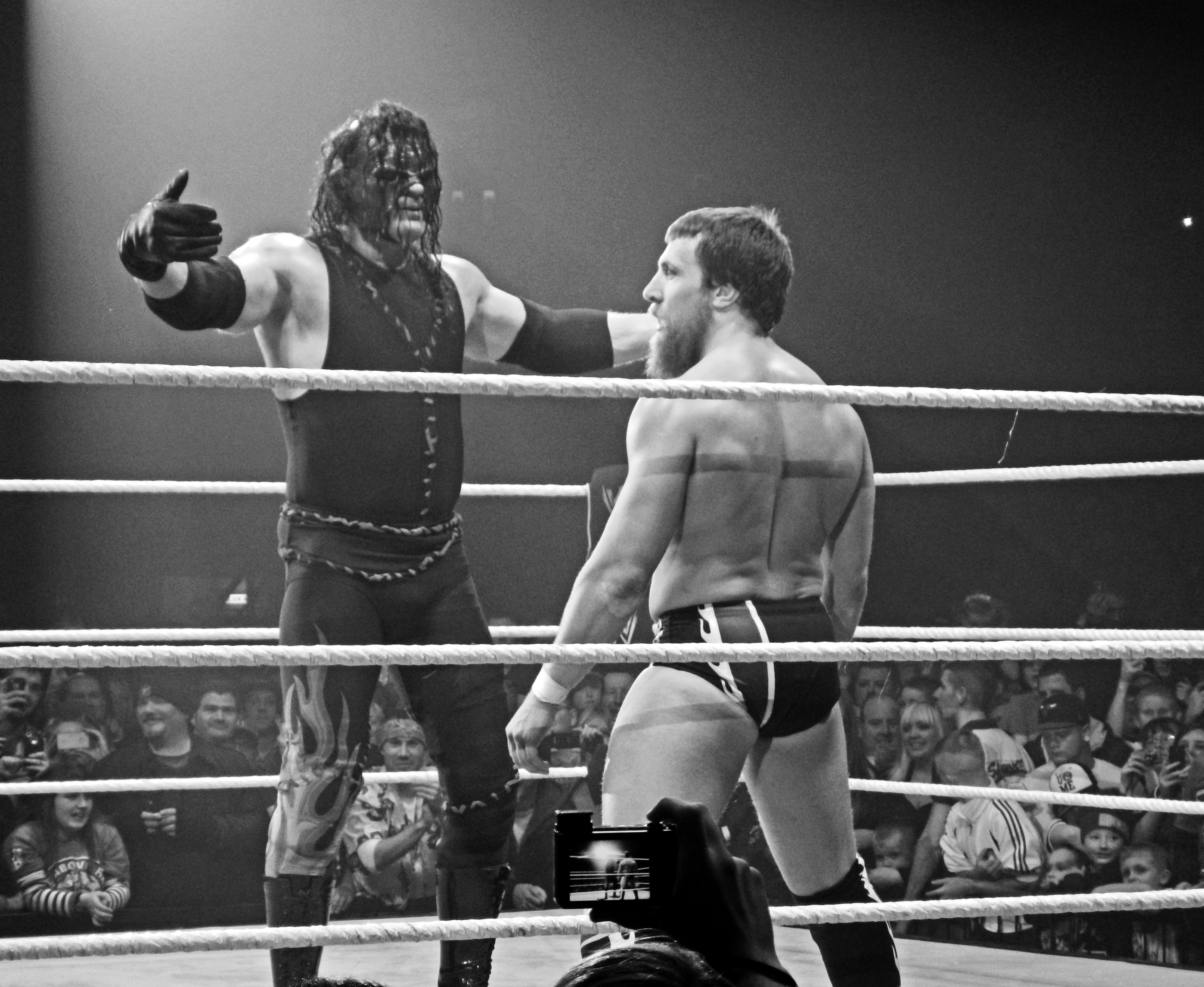 Kane proposes that his tag team partner, Daniel Bryan, hug it out with him. The duo form Team Hell No. Photo was taken in Newcastle, England during a WWE house show.